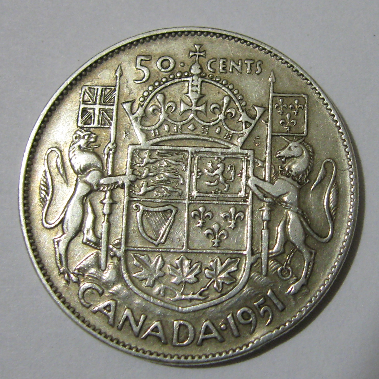 A Canadian 50 cent piece from 1951, with King George the 6th on the obverse and Canada's (now former) coat of arms. It is made of 80% Silver and 20% Copper.